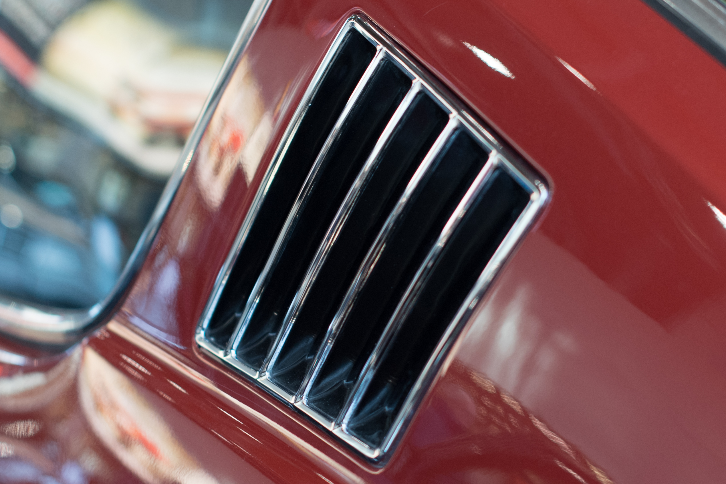 10/12/17, Nuremberg, Retro Classics Bavaria car show.